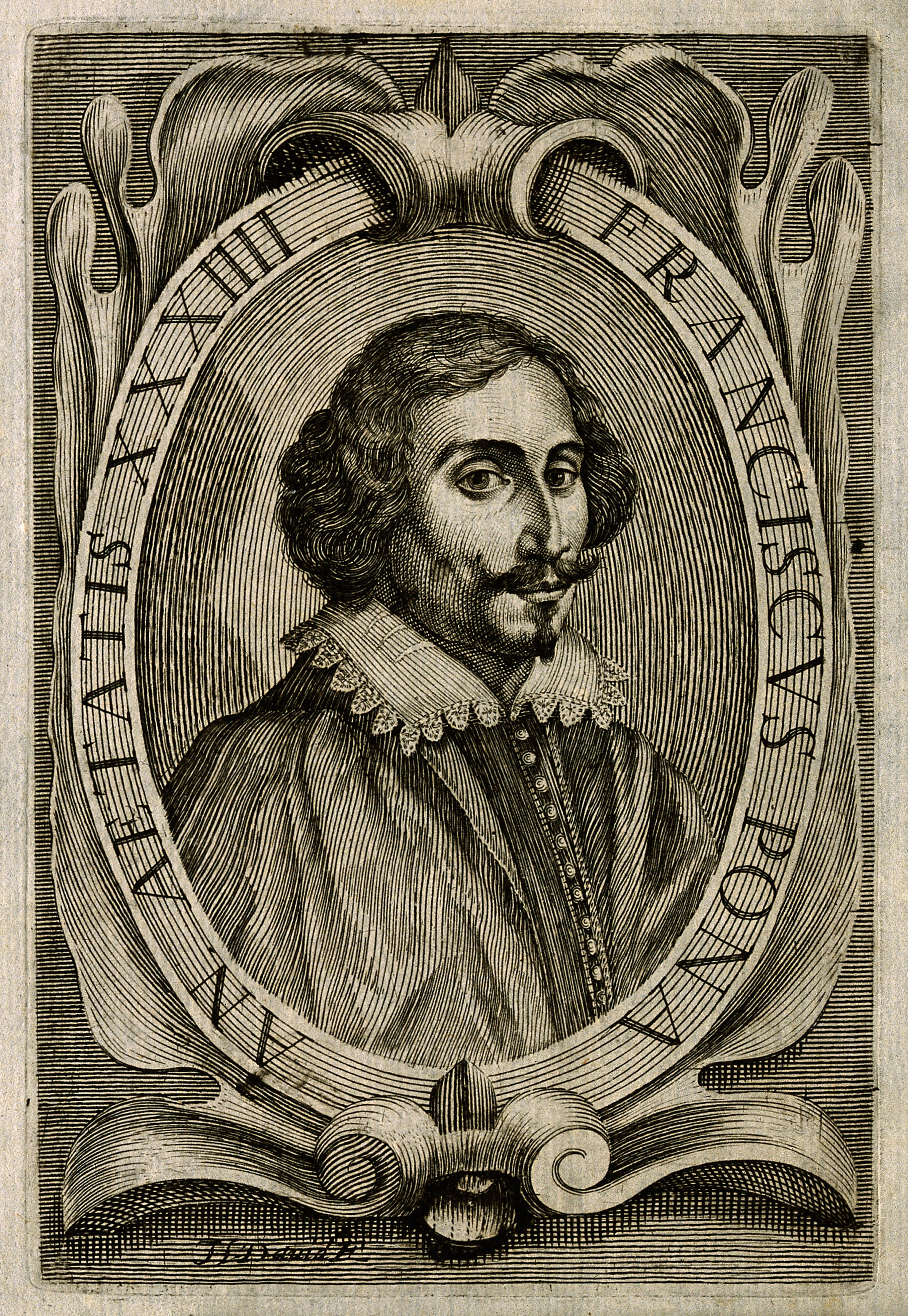 Francesco Pona. Line engraving by H. David. Iconographic Collections Keywords: portrait prints; engravings; Francesco Pona